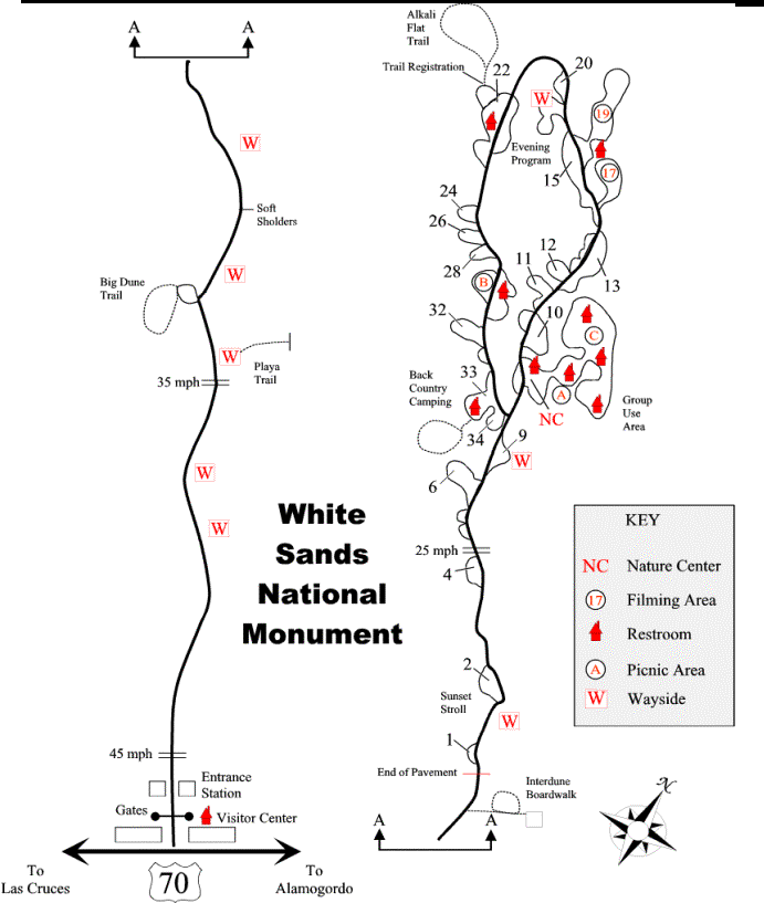 Bleached Earless Lizard in the White Sands National Monument.